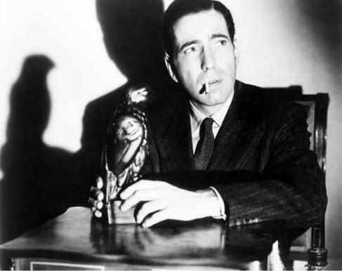 Humphrey Bogart in American noir film The Maltese Falcon (1941). See also film still. No copyright notice.